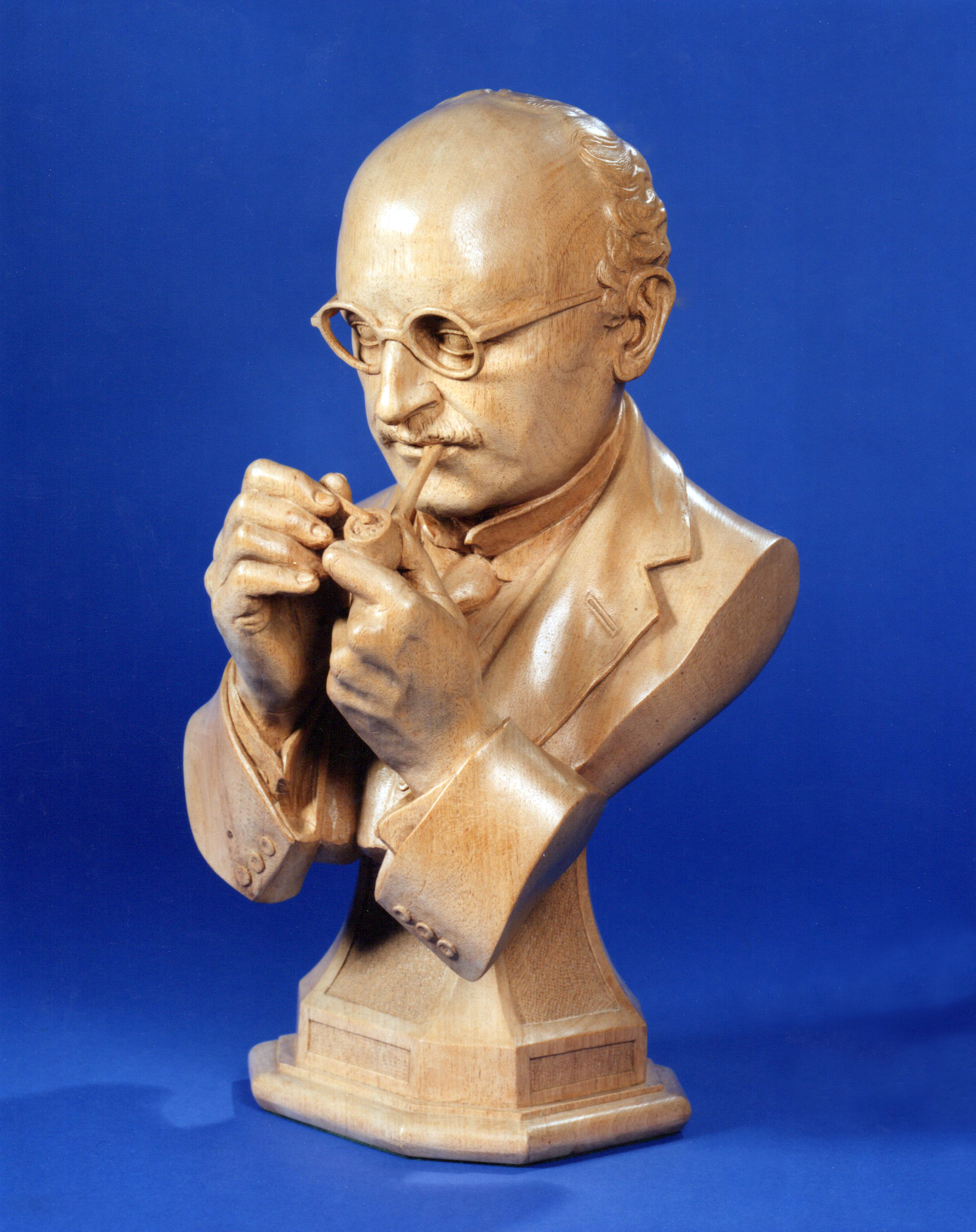 Sir Edwin Landseer Lutyens, 1'8" high portrait bust by Denis Parsons in bleached Brazilian mahogany, showing his glasses and pipe, unusual in carving.